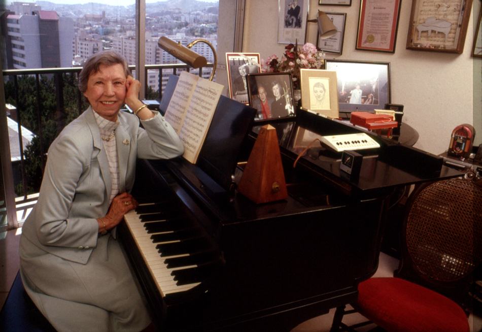 Norma Teagarden, of the musical Teagarden Family, at her home, San Francisco 1989. Photo by Brian McMillen